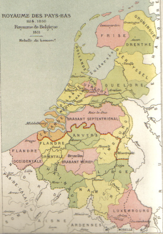 Map of Belgium and the Netherlands between 1815 and 1830.